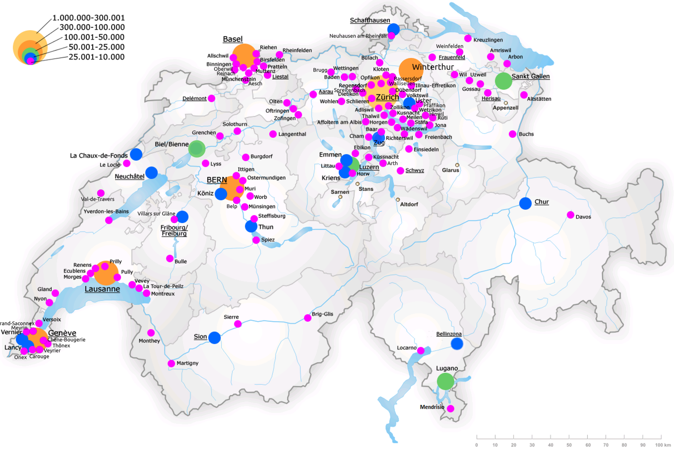 Distribution of cities in Switzerland according to their population